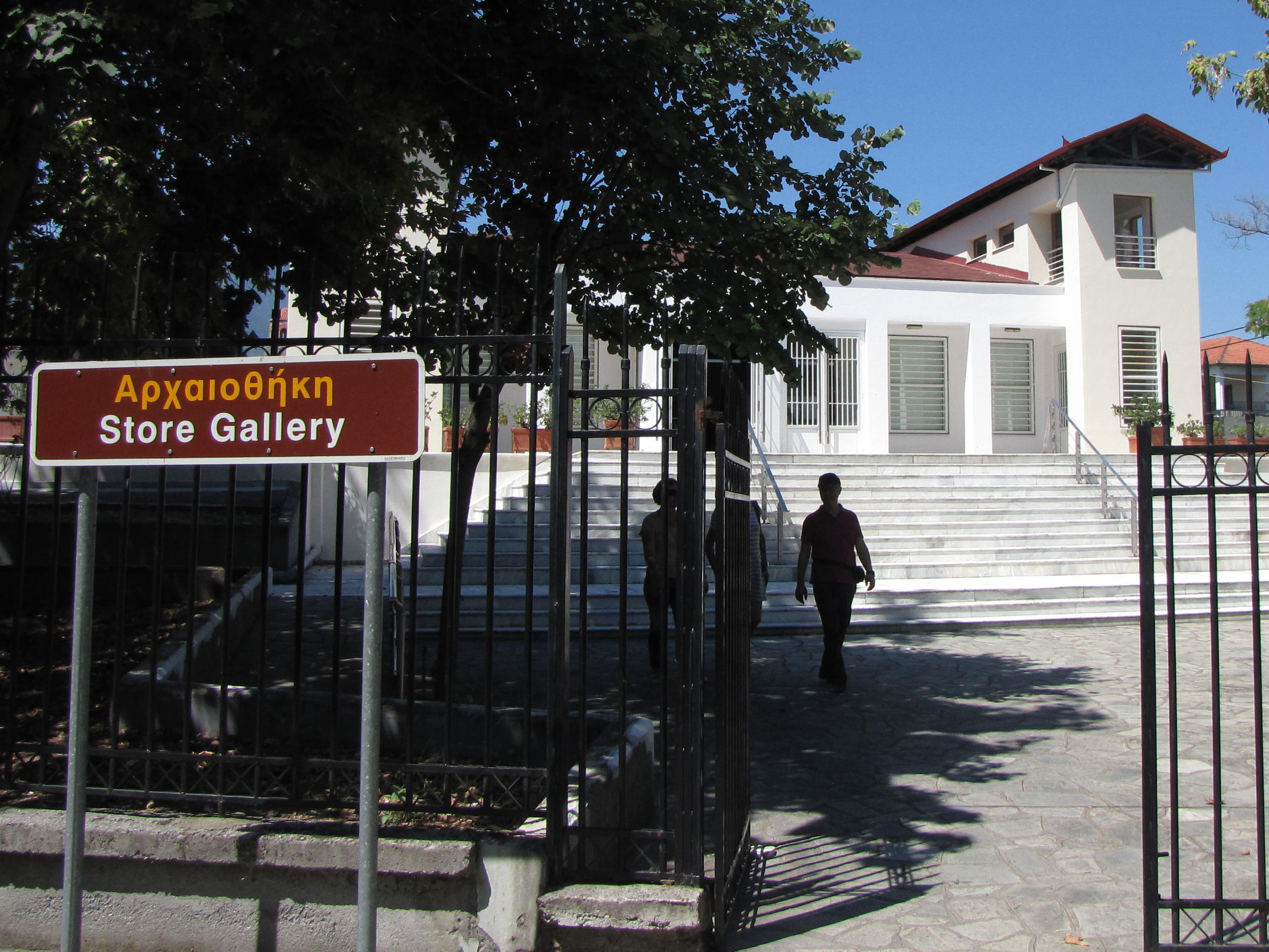 The Archaeothiki